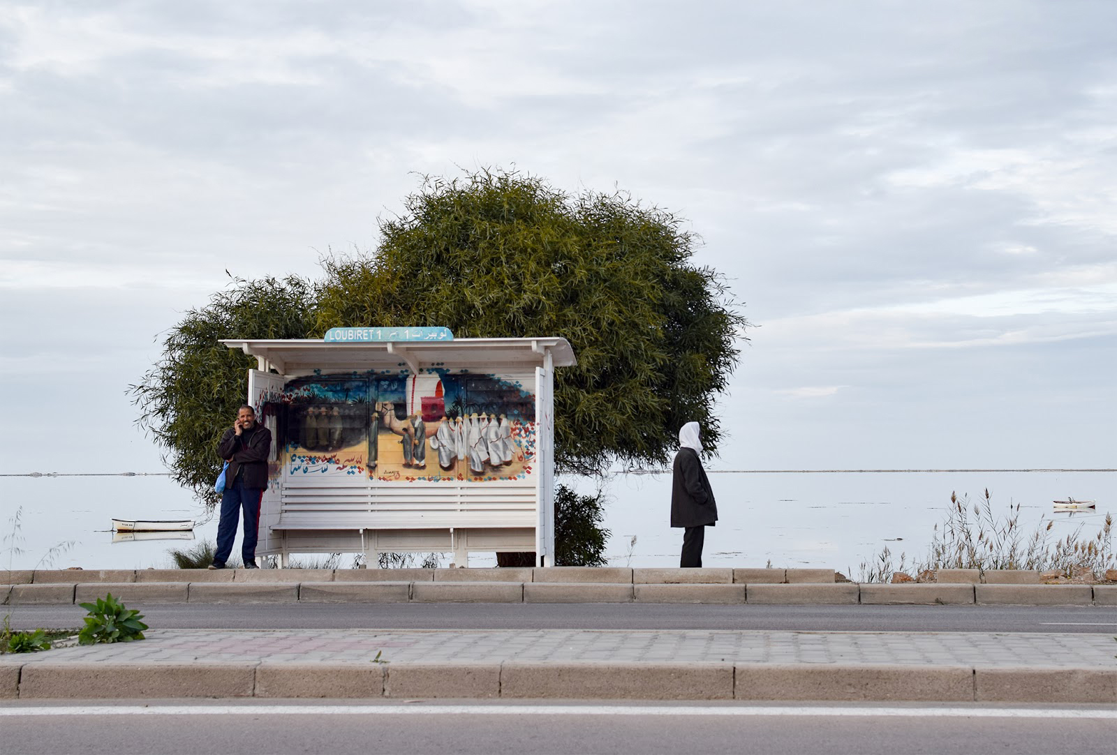 This is an image with the theme "Africa on the Move or Transport" from: Tunisia